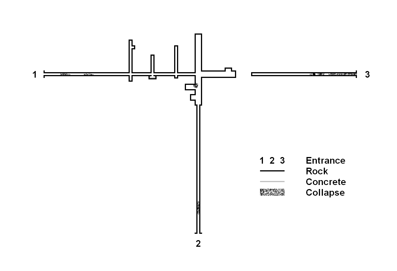 Diagram of the underground complex Soboń, a part of the project Riese.